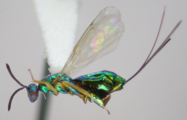 Torymus cecidomyae